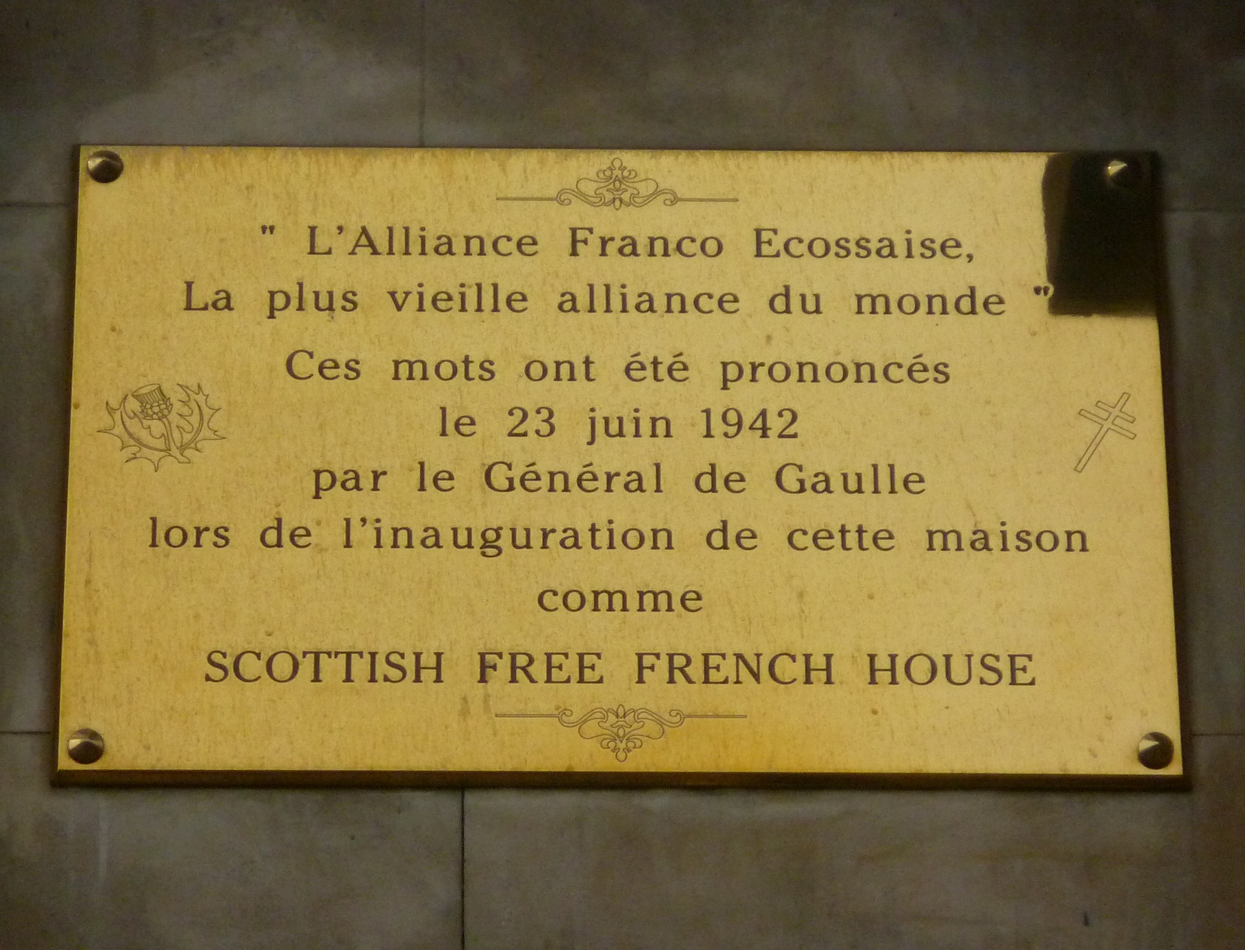 The 'Auld Alliance' dates from 1295. "...the two nations, the French and the Scots, have stood by each other since the treaty made between Scotland and Charlemagne — a period of eight hundred and seventy-two years, during which it has ever held firm, never has been violated, and never even altered." -- Henri, Duc de Rohan mythologising the Auld Alliance in 1600